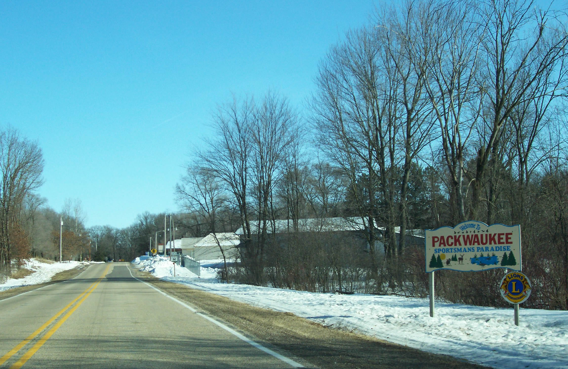 The welcome sign for TOWN of Packwaukee, Wisconsin, USA - NOT the census-designated place/unincorporated community with the same name.